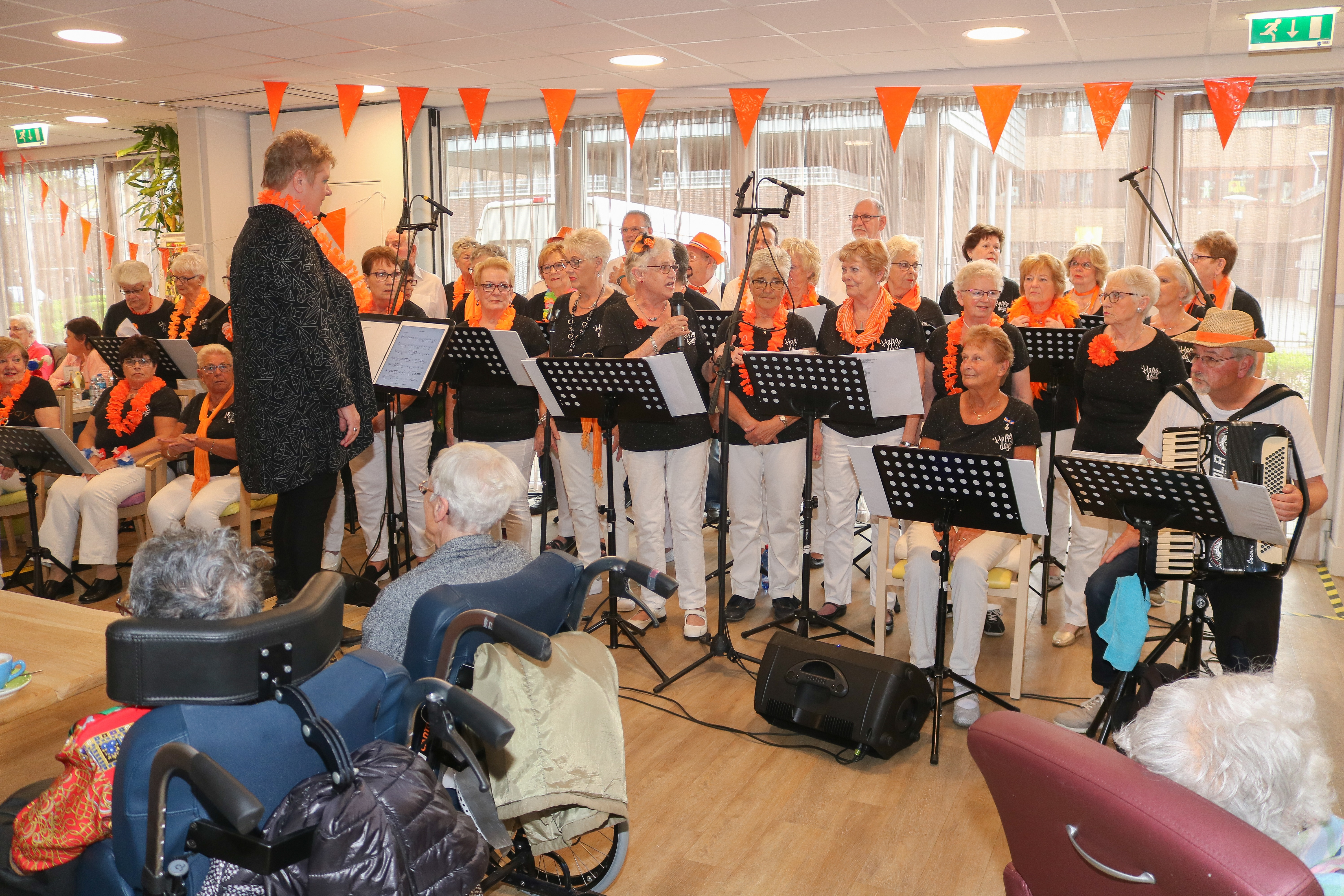 Choir elderly centre Gandhi Spijkenisse King day